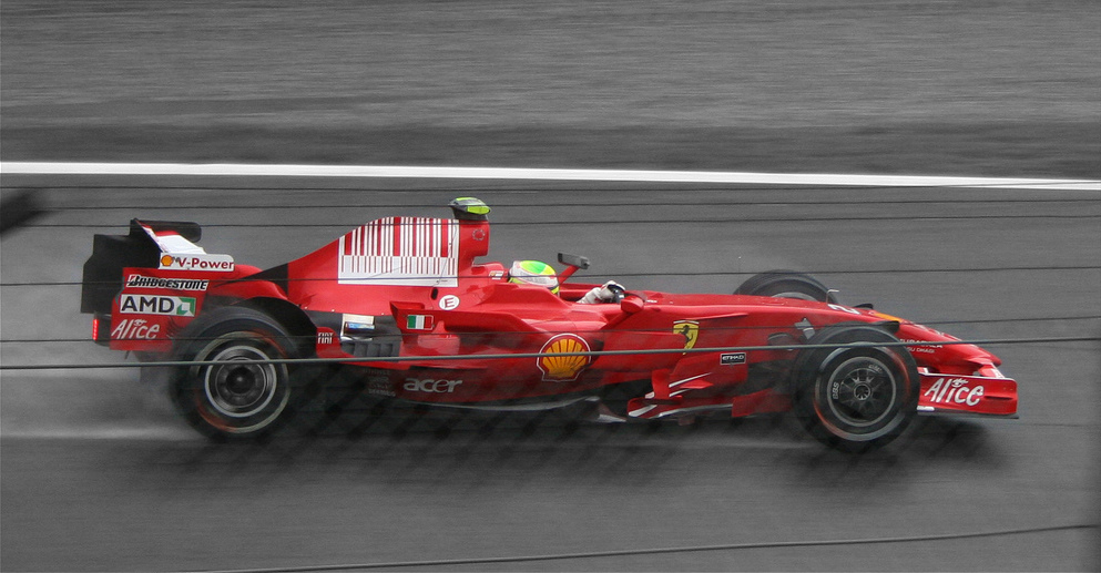 Felipe Massa at 2008 Italian Grand Prix